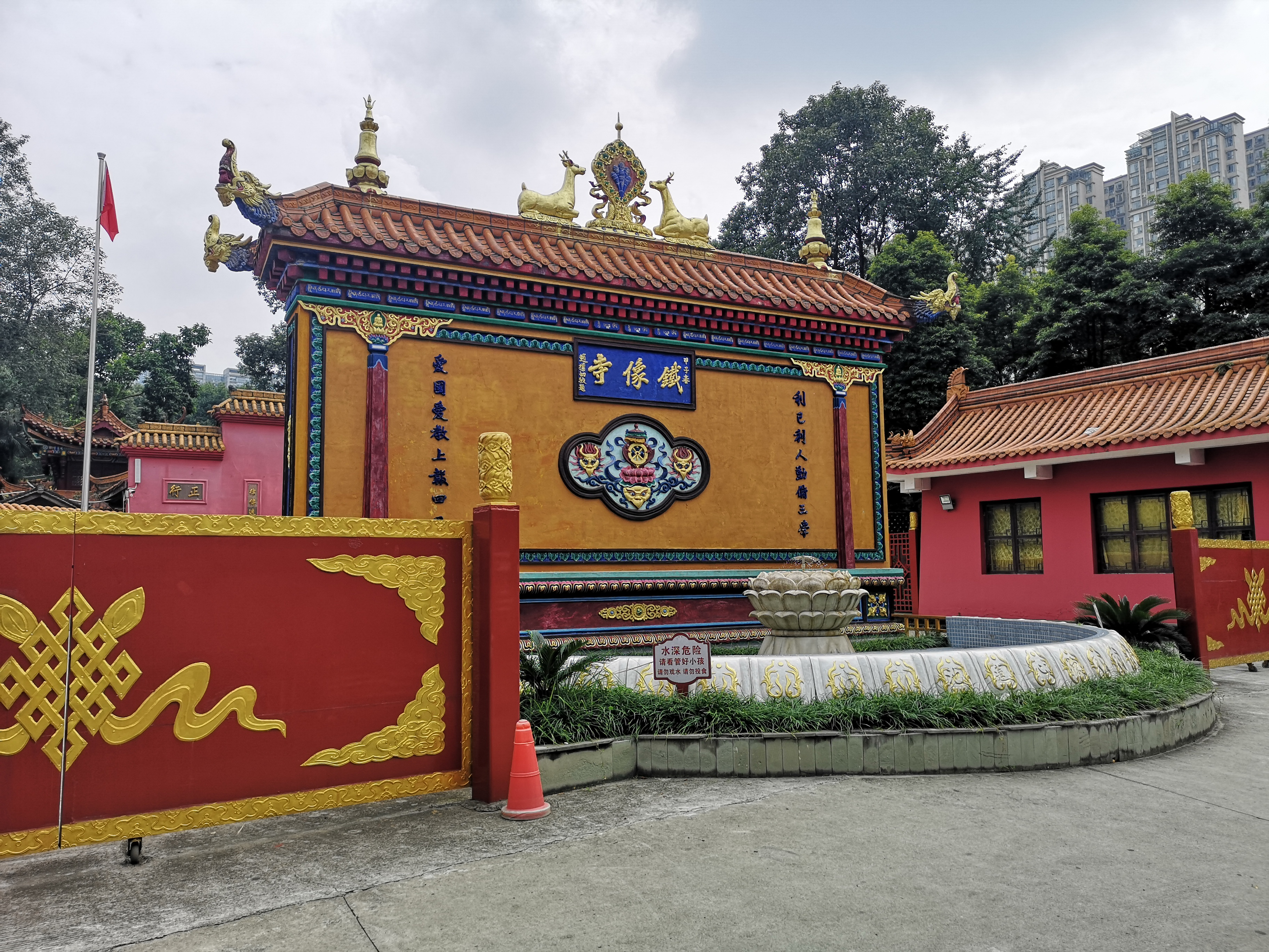 Tiexiang Buddist Temple, Chengdu, China